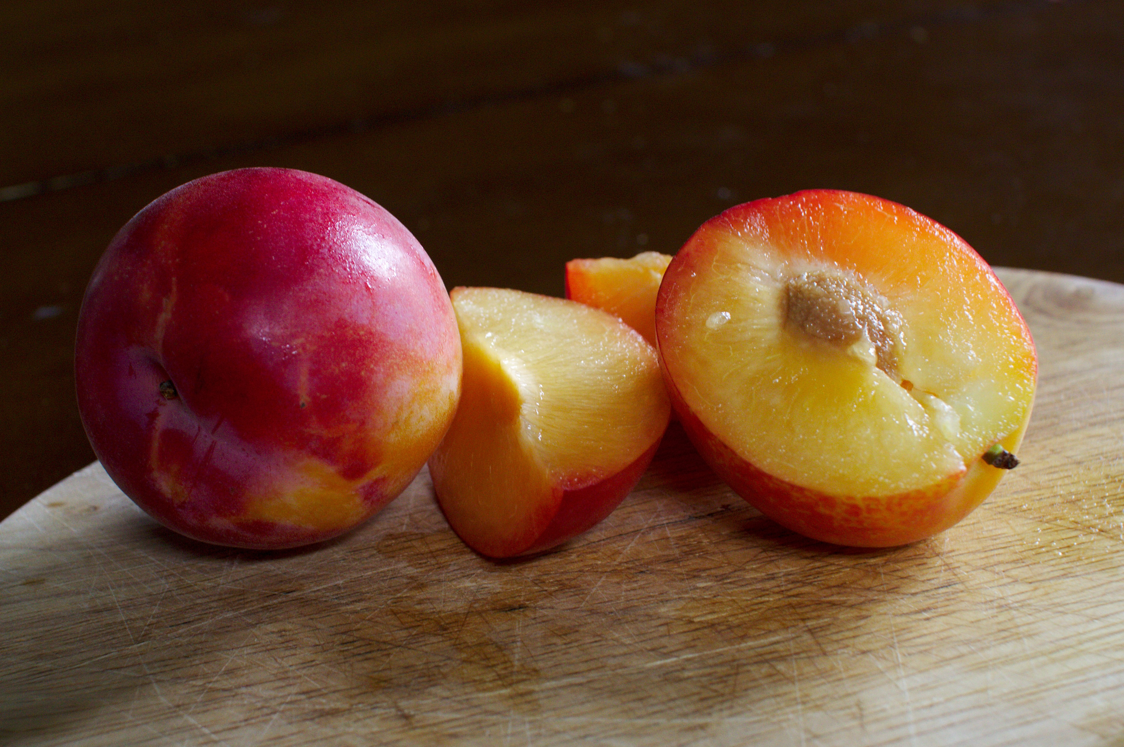 Ripe Rose apriums, purchased from Trader Joe's in August 2013, on a wooden cutting board